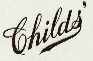 Logo from a Childs Restaurant menu. Courtesy New York Public Library ([1]). Detail of menu at